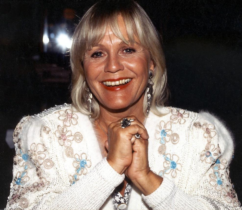 Christina Schollin, as released by image creator Lars Jacob ProdPlace: Berns, Berzelii Park, Stockholm, Sweden